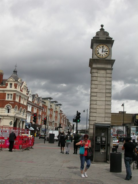 Clapham, clocktower At the junction of Clapham High Street & South Side. According to the plaque, donated by Alexander Clegg, mayor of Wandsworth, 1905-6.